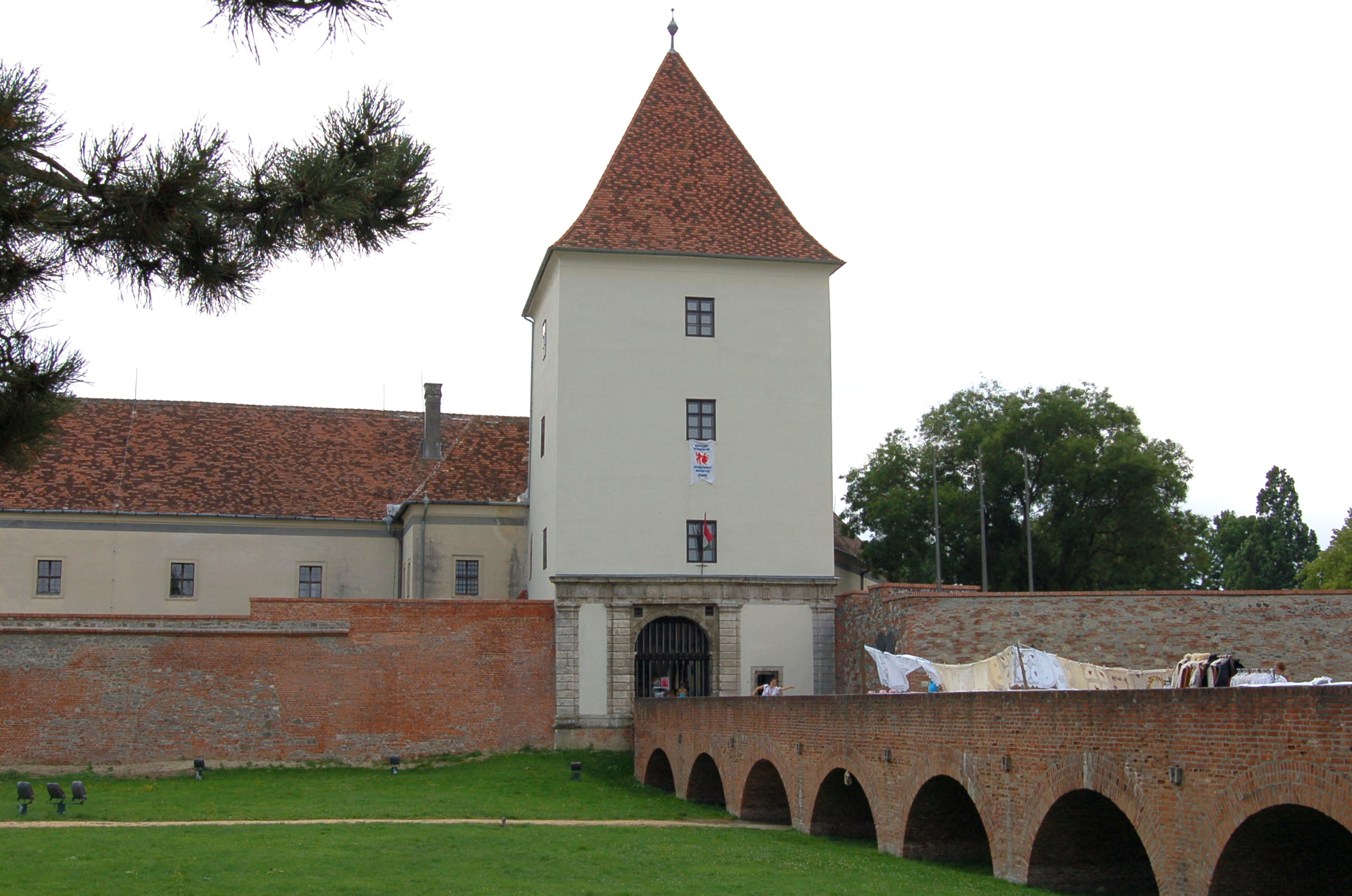 Nádasdy Castle in Sárvár